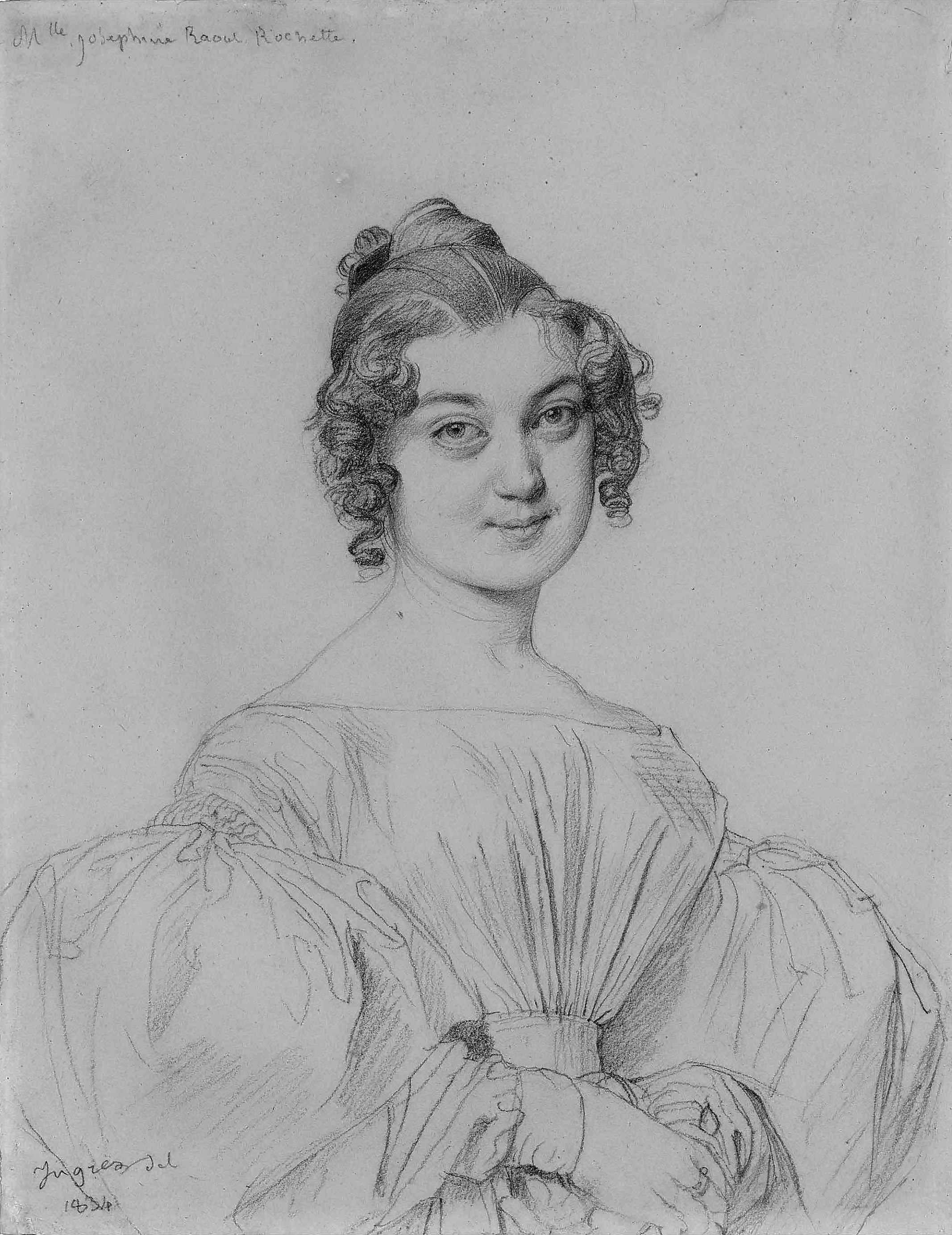 Anne-Joséphine-Cécile Raoul-Rochette graphite 24 x 18.7 cm signed b.l.: Ingres del / 1834 inscribed t.l.: Mlle. josephine Raoul Rochette.